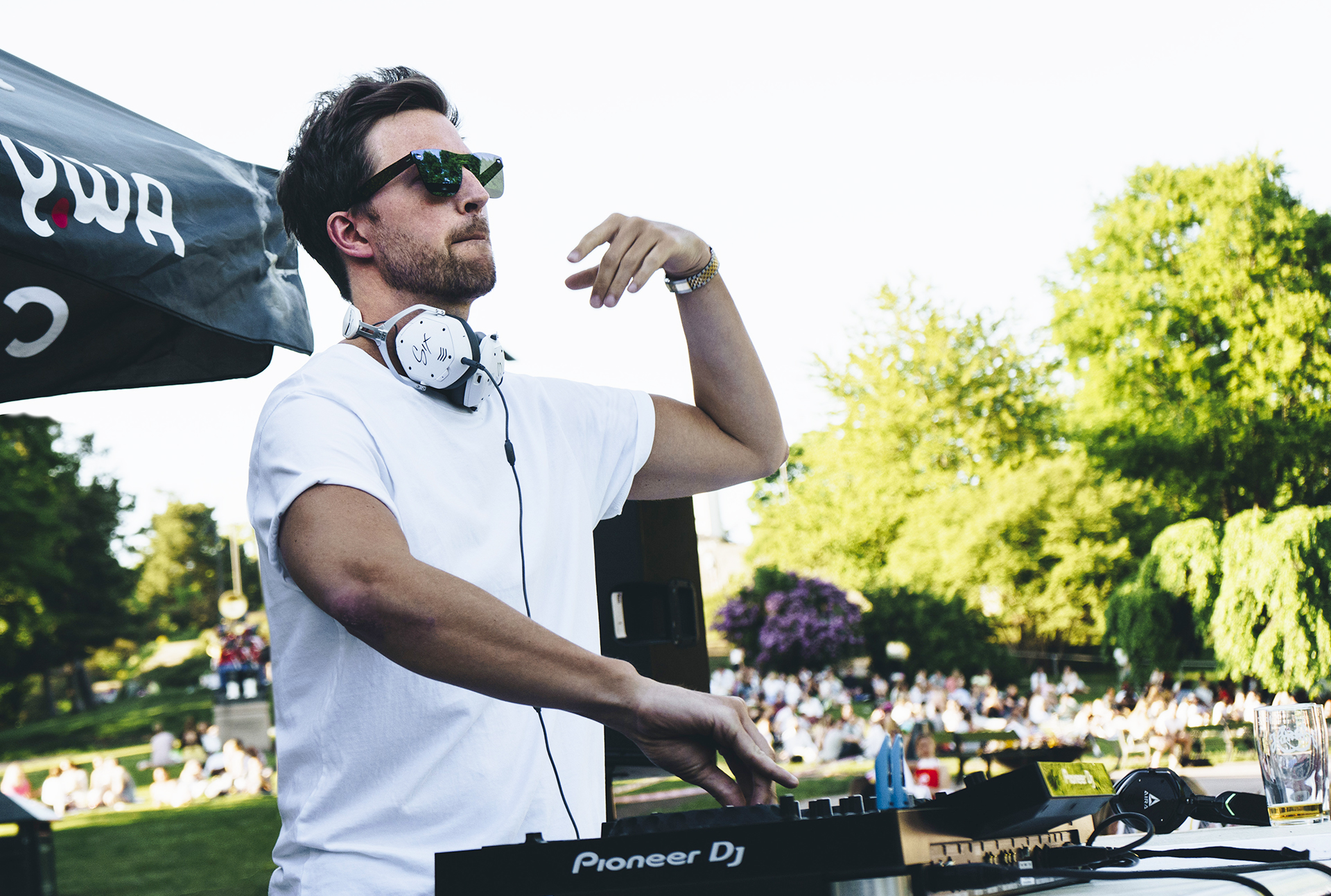 Wiese live at St. Hanshaugen